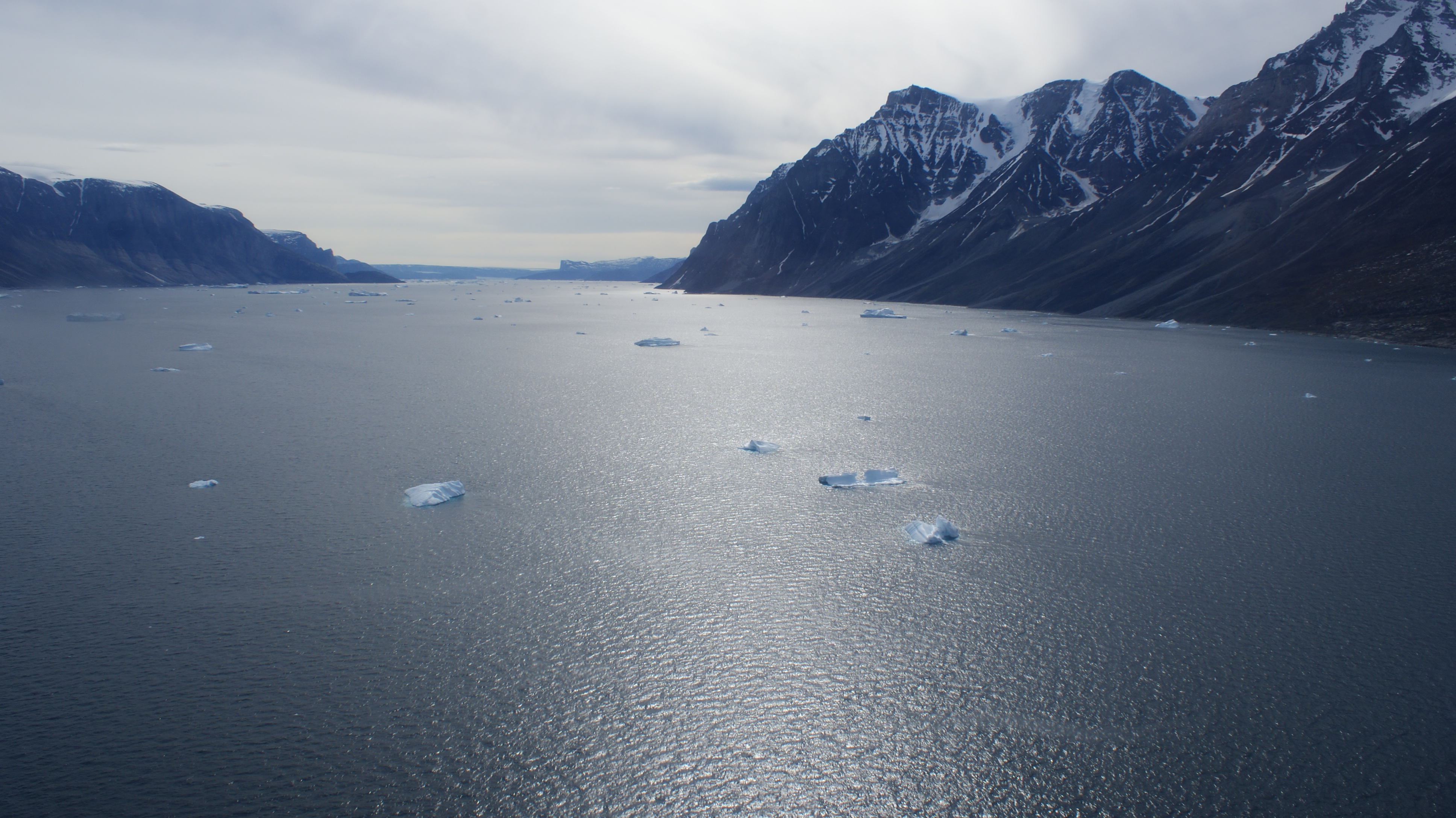 Aerial view of Torsukatak Strait, Greenland. Photographed from the Air Greenland Bell 212 helicopter during the Uummannaq-Ukkusissat flight. Ukkusissat peninsula on the left, Appat Island on the right.